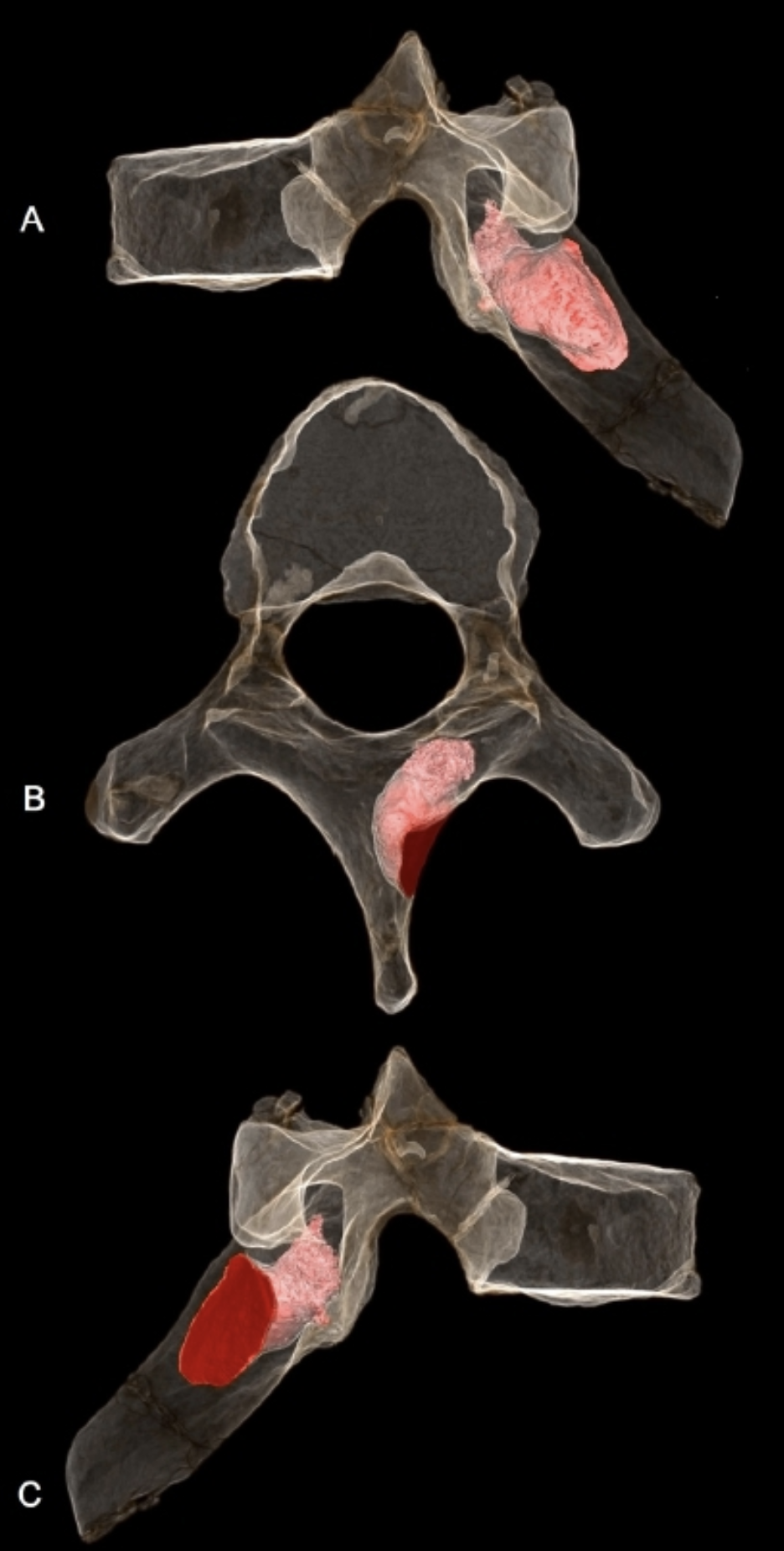 Vertebra UW 88-37. Sixth thoracic vertebra of juvenile Australopithecus sediba MH1. Partially transparent image volume with the segmented boundaries of the lesion rendered solid pink. A) left lateral view, B) superior view, C) right lateral view